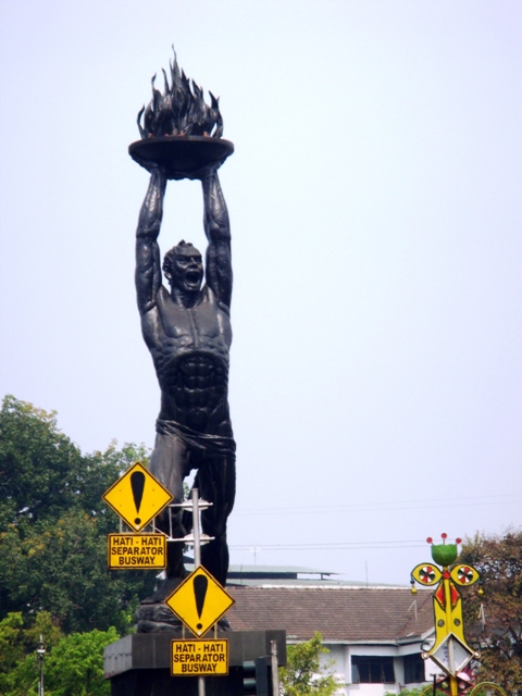 Youth Statue at Senayan area of Jakarta, a contribution made by the National Petroleum Company for the city, often jokingly dubbed by locals as the "Pizza-Man".